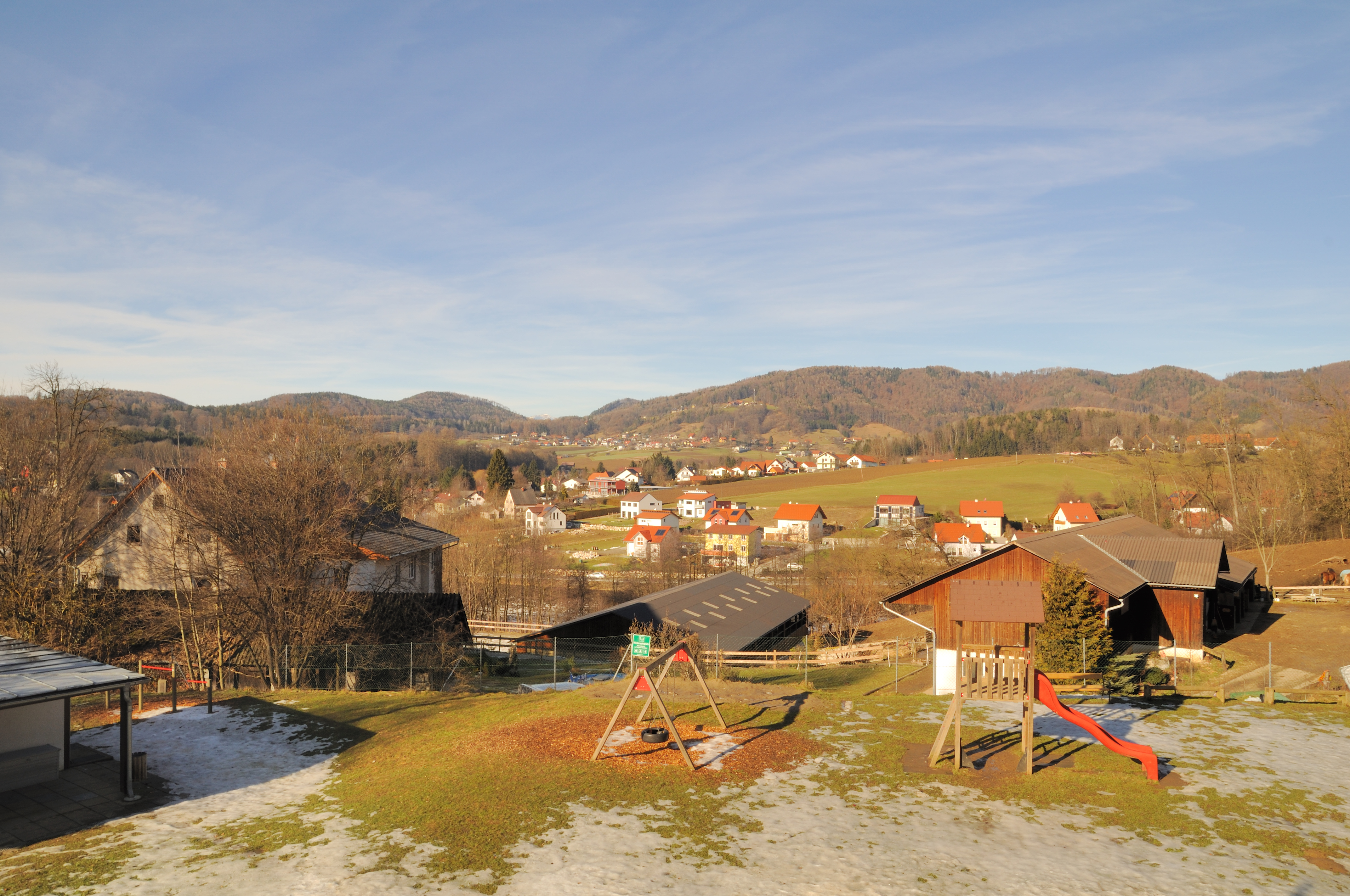 Thal